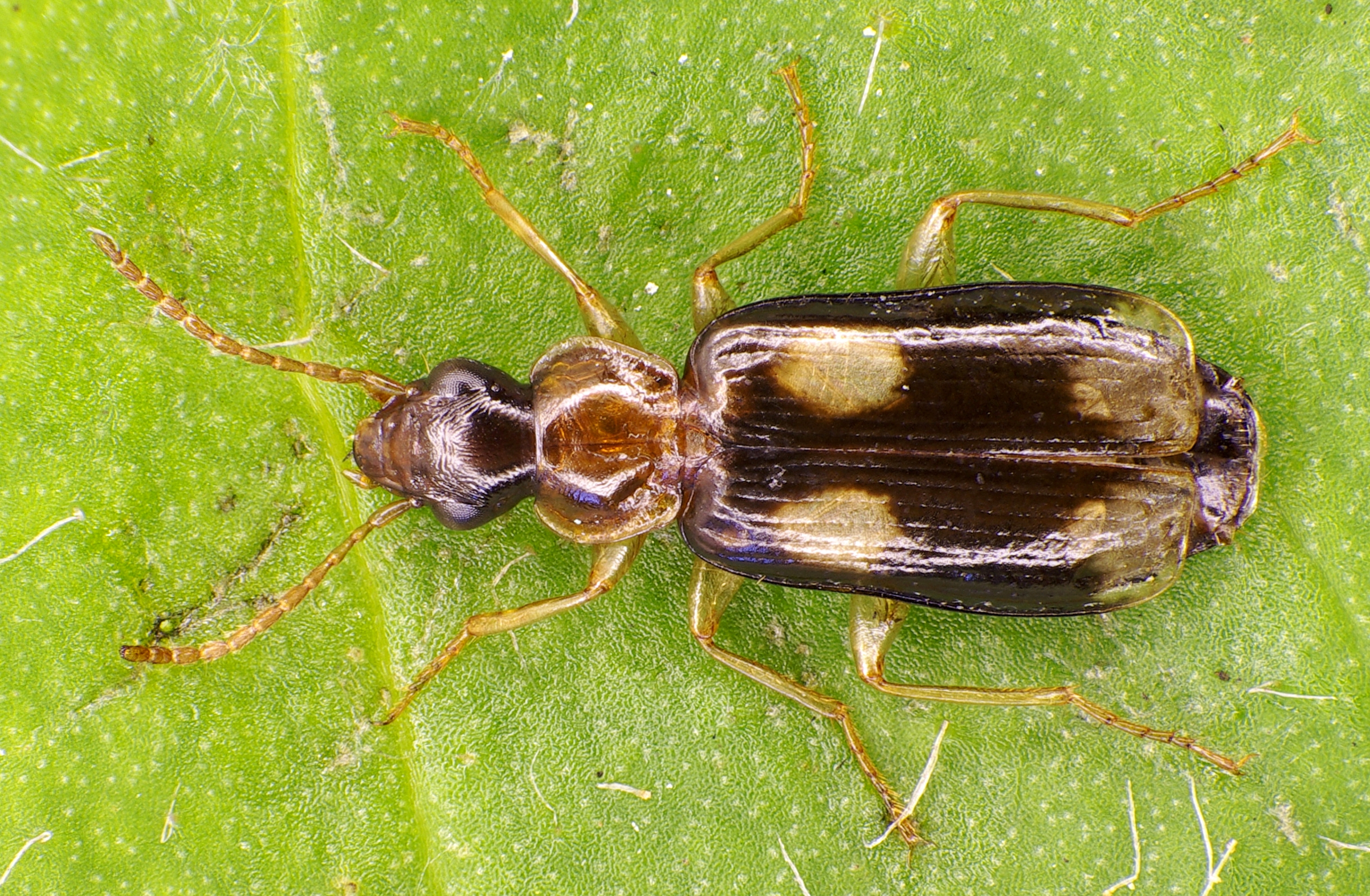 Dromius quadrimaculatus from Hungary, Vértes-mountains, near Várgeszteny